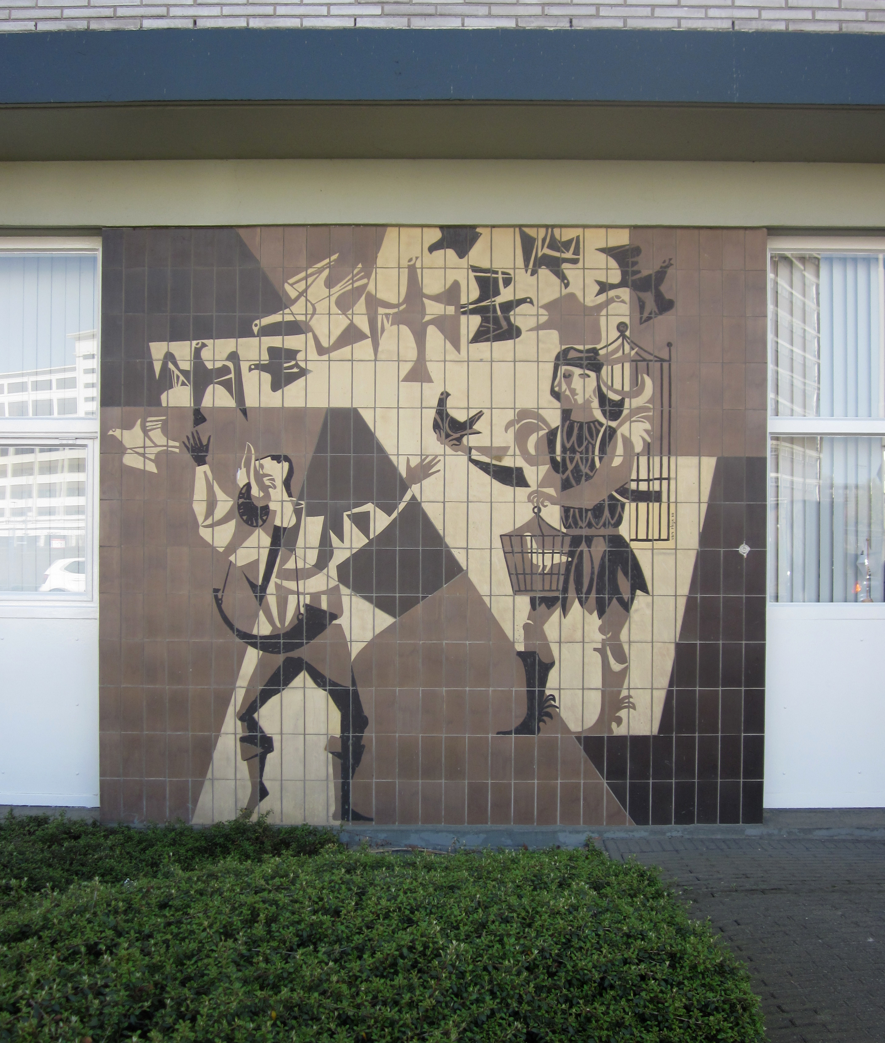 TIle art at the Schootsestraat 14 in Eindhoven, made by Jac van Rhijn in 1960.